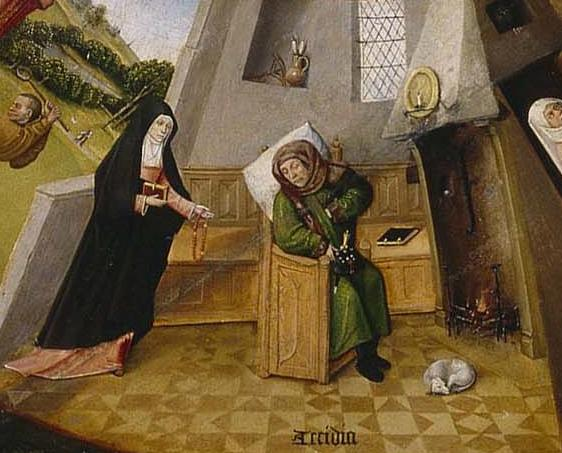 Table of the Mortal Sins [detail: Accidia (sloth)].